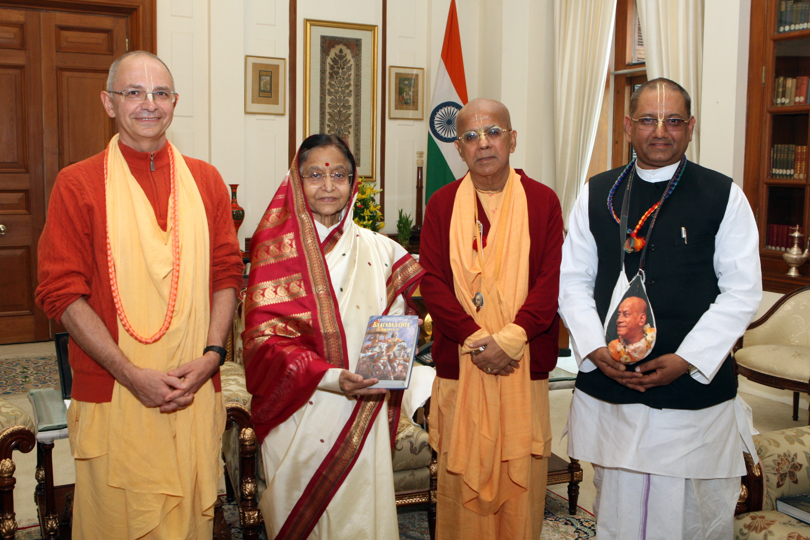 President of India Pratibha Patil (second from left) receives a copy of the Russian translation of Bhagavad Gita As It Is from ISKCON leaders (left to right) Bhakti Vijnana Goswami, Gopal Krishna Goswami, and Vrajendranandana Das, at Rashtrapati Bhavan, the official residence of the President of India. New Delhi, 27 Feberuary 2012.